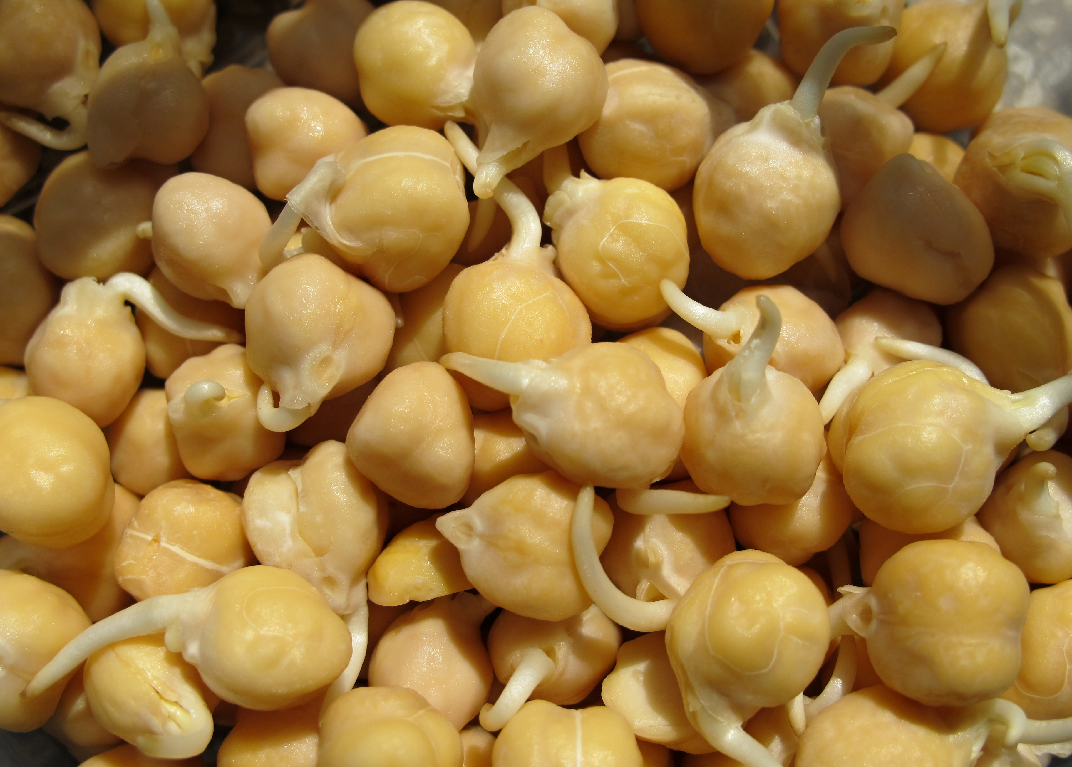 Sprouted chickpeas